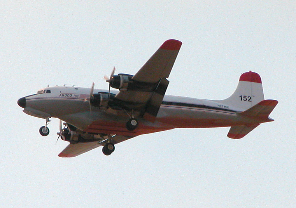 Ardco C-54 (DC-4) air tanker landing at Fox Field, Lancaster, California